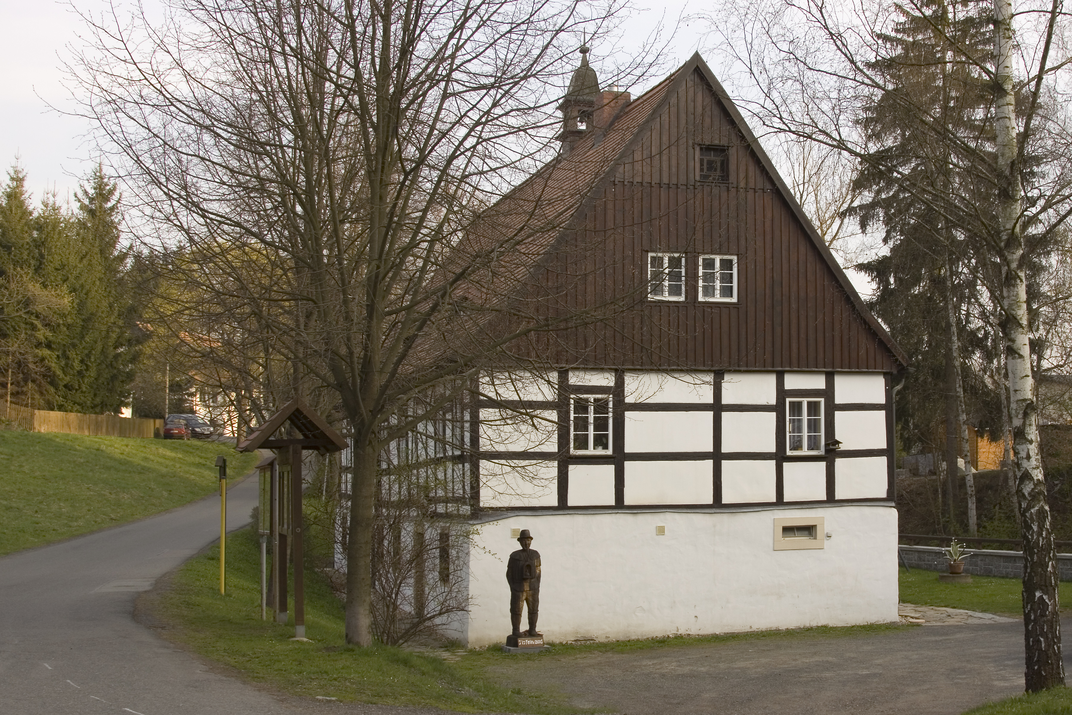 Bräunsdorf (Oberschöna), pit head building of the mine "Neue Hoffnung Gottes Fundgrube"